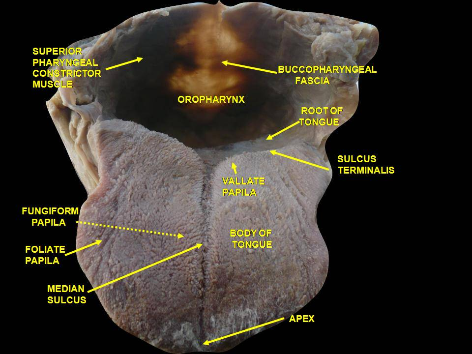 Anatomical Dissections